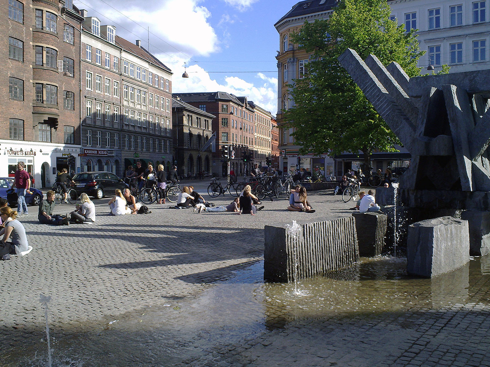 Sankt Hans Torv, a public square in the Nørrebro district of Copenhagen, Denmark